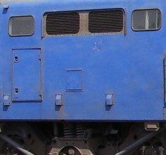 Hatch door and drainage holes on right side of Class 18E Series 1 no. 18-111 (left side on ex Class 6E1 Series 11 no. E2142)Location: Capital Park, PretoriaHistory: Rebuilt in 2004 from Class 6E1 Series 11 no. E2142